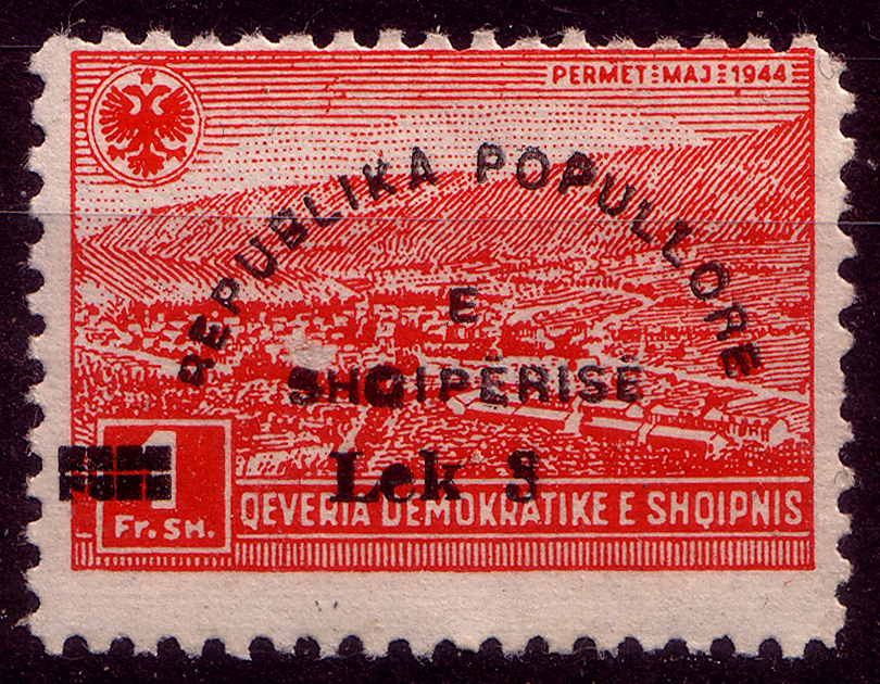 Postage stamp of Democratic Albania overprinted with People`s Republic, 3 lek, 1945